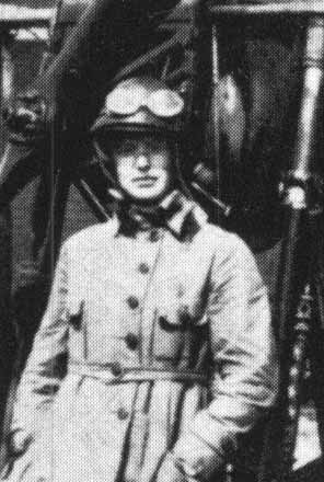 Elsa Andersson (1897-1922), Sweden's first female aviator and stunt parachutist.